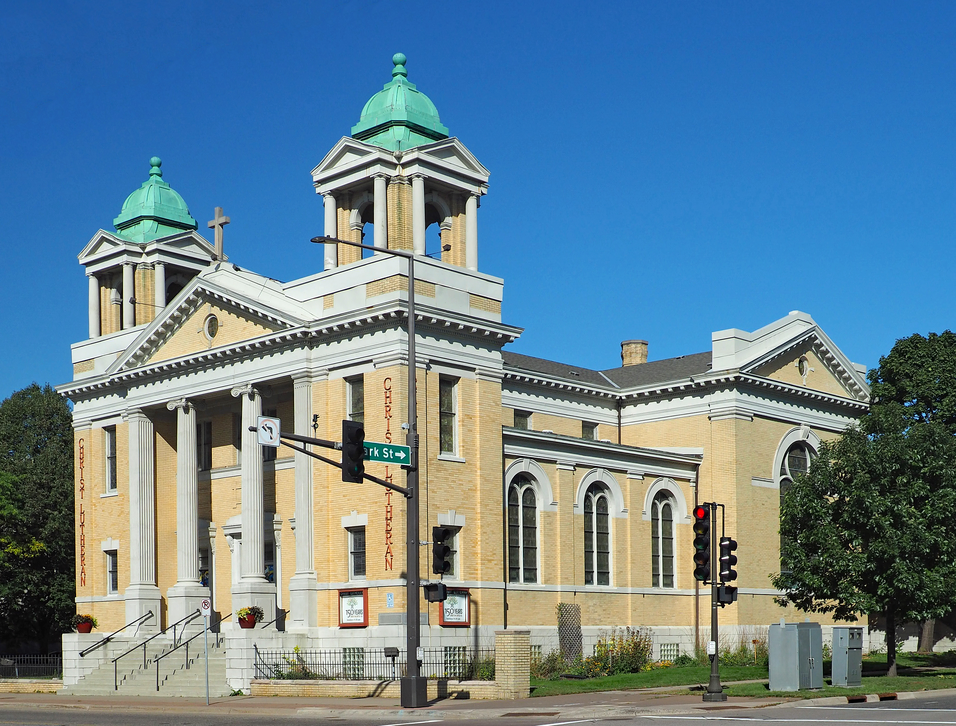 Christ Lutheran Church on Capitol Hill (formerly Norwegian Evangelical Lutheran Church), 105 University Ave W, Saint Paul, Minnesota, USA. Viewed from the southeast.